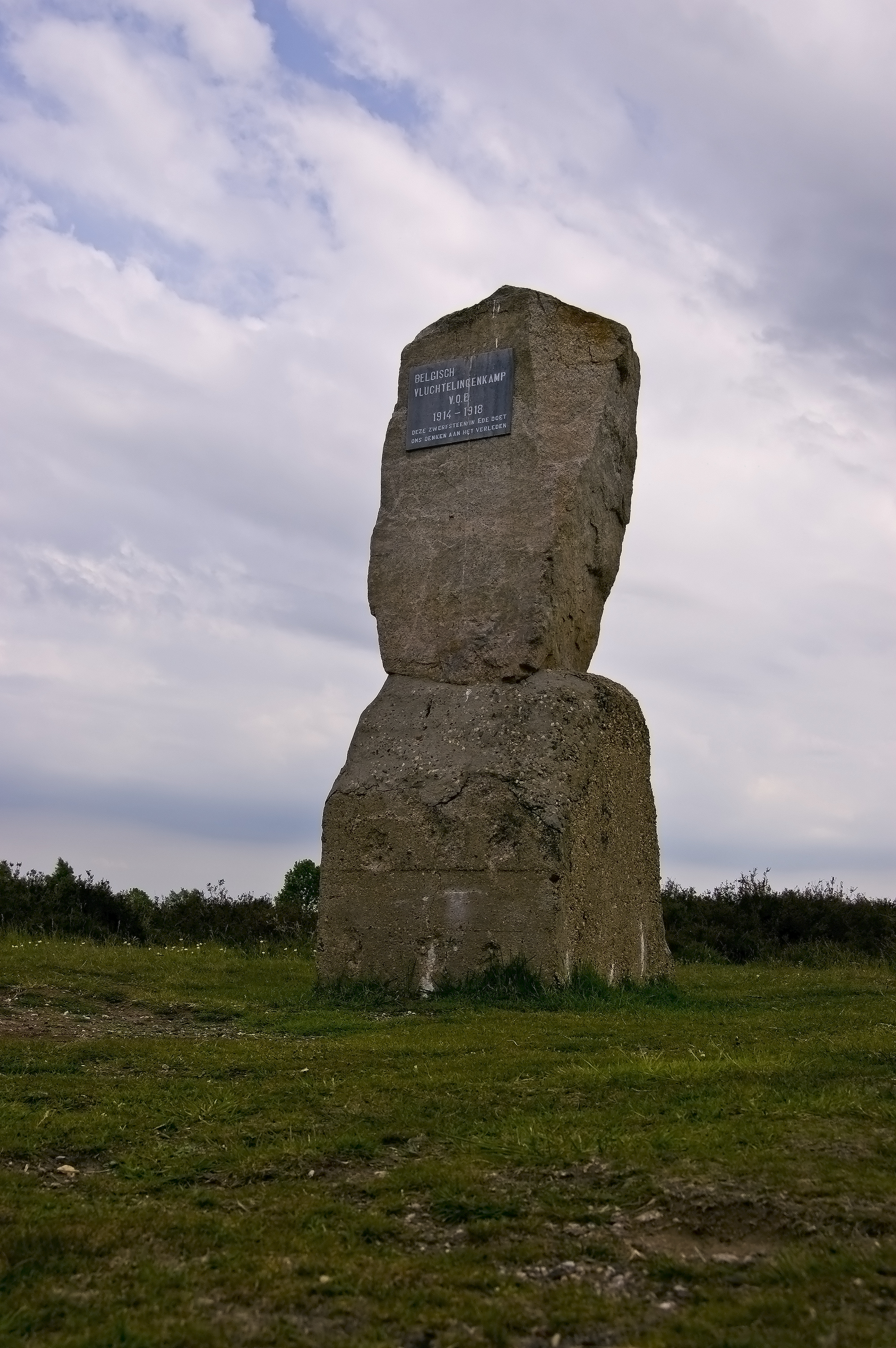 Belgenmonument in Ede, a memorial to people from World War 1 that came to Ede, Holland